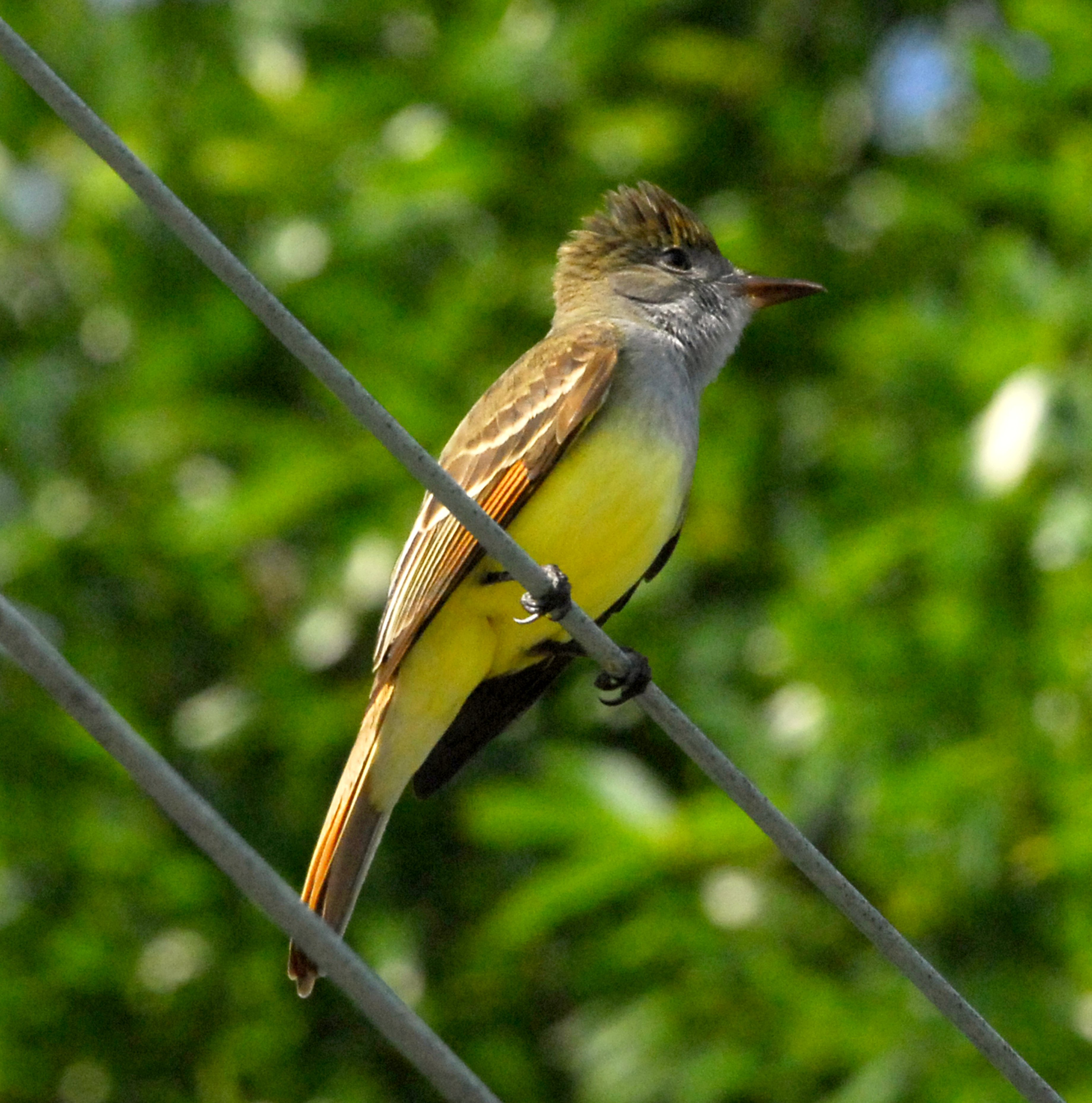 Great Crested Flycatcher Myiarchus crinitus, Florida, USA